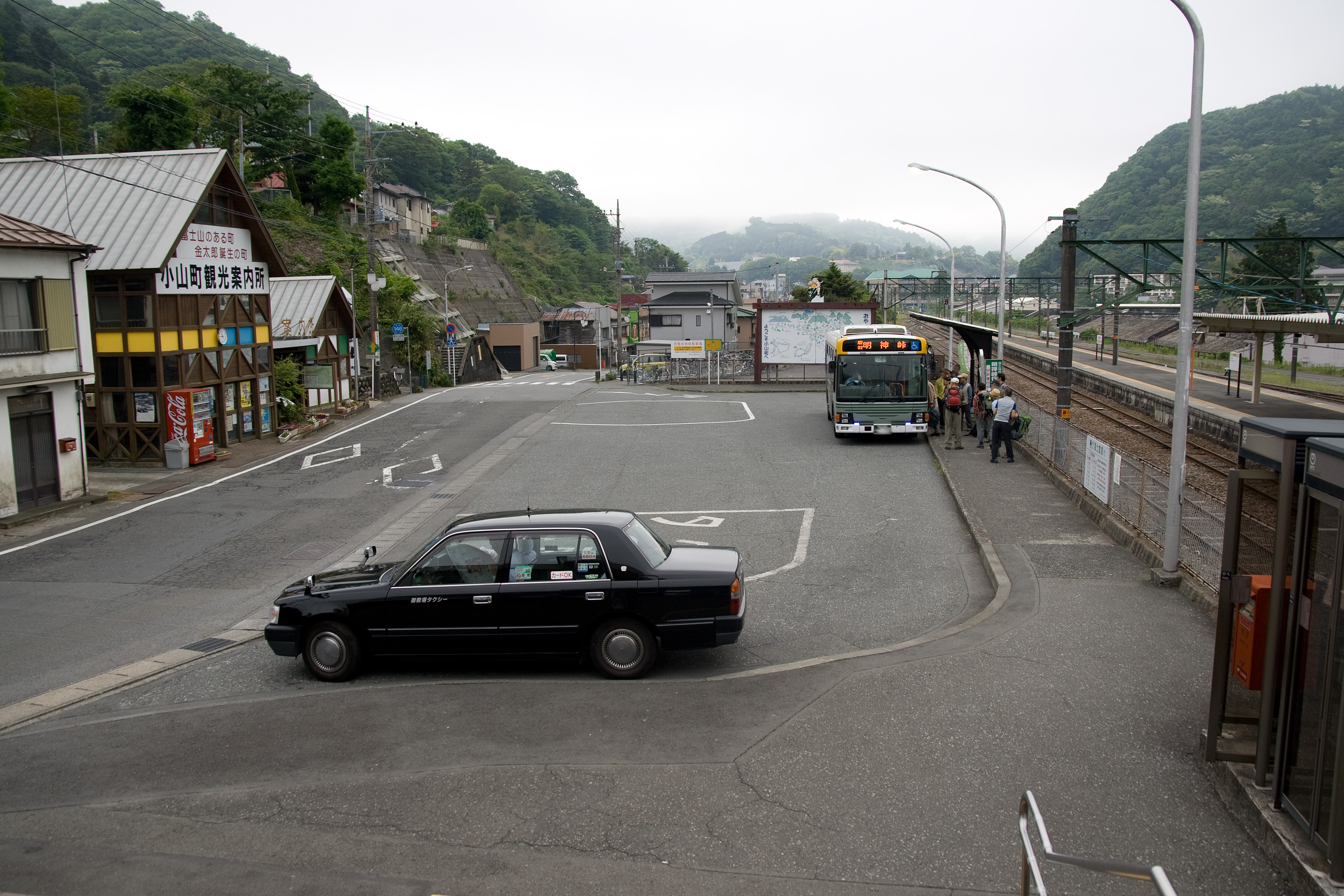 Suruga-Oyama Station in Oyama town, Shizuoka Prefecture, Japan.